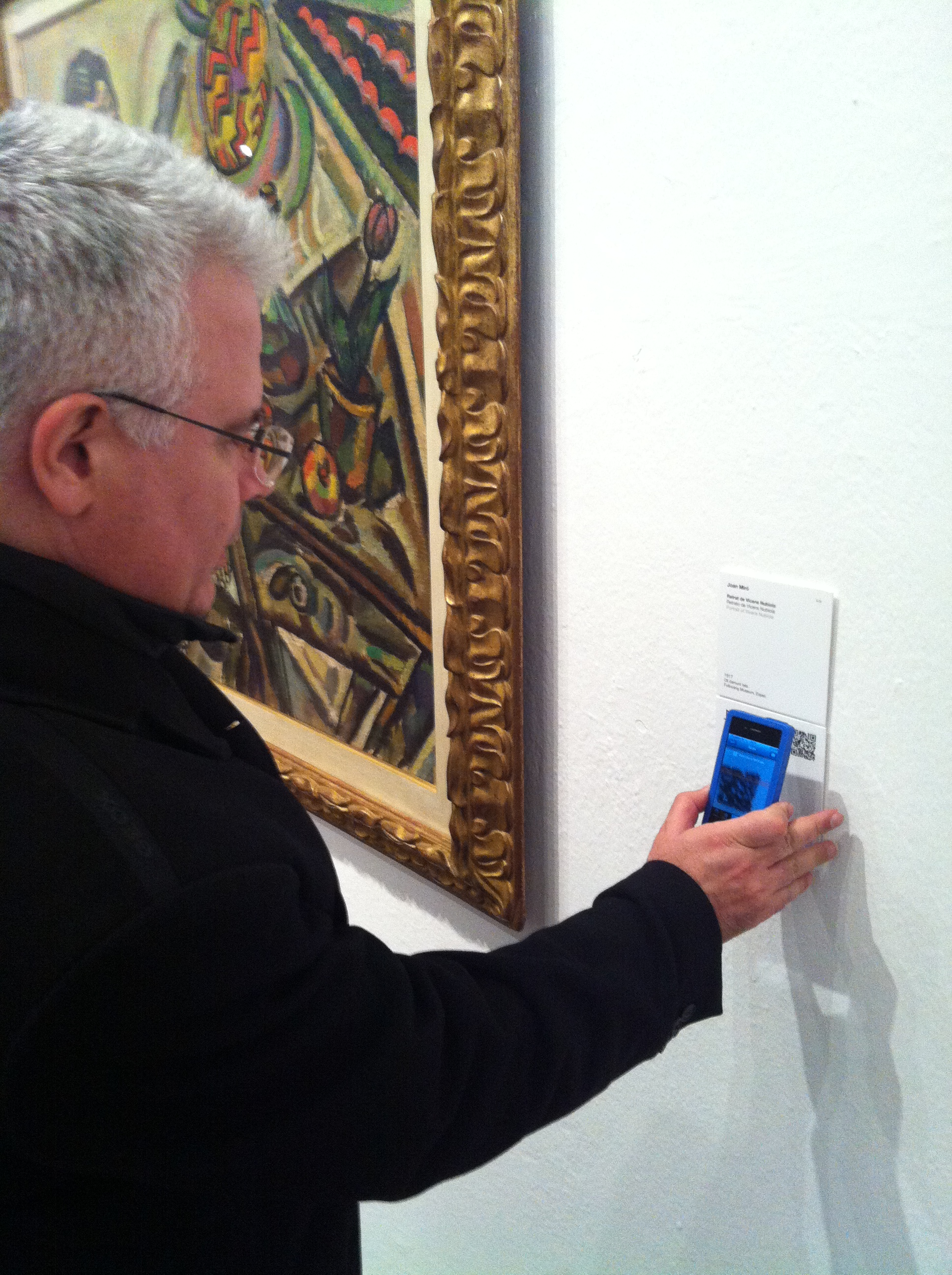 People scanning QRpedia codes at Joan Miró exhibit at Fundació Joan Miról